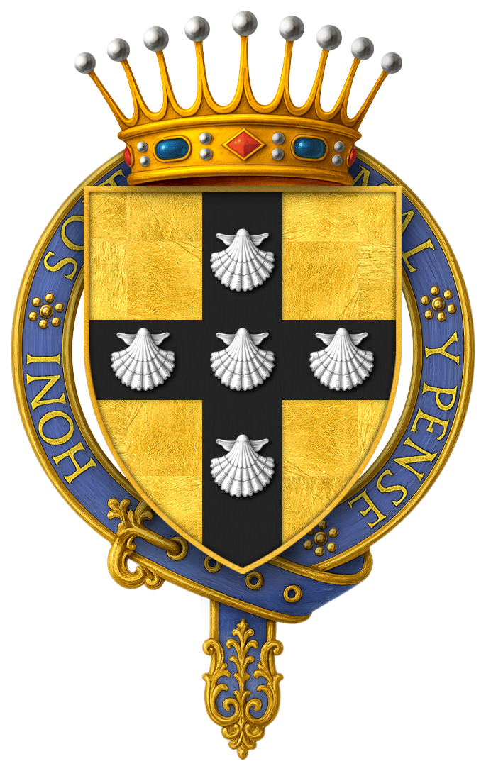 Coat of Arms of Sir Jean III de Grailly, Captal de Buch, KG - or on a cross sable five escallops argent FOSTER, Joseph, Some Feudal Coats of Arms from Heraldic Rolls 1298-1418, London: James Parker & Co., 1902.